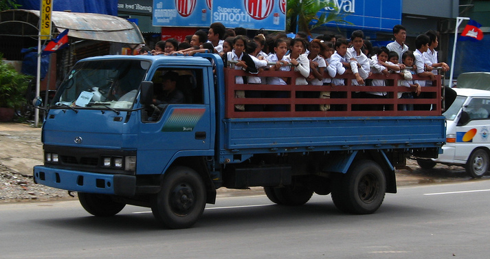 Hyundai Mighty (Mitsubishi Fuso Canter based truck) used as School bus in Sihanoukville, Cambodia